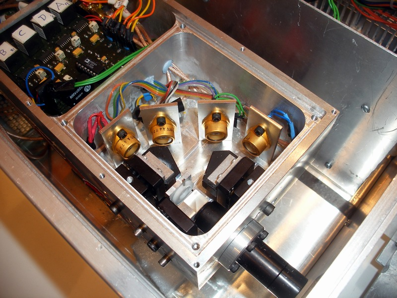 The beamsplitter and photodetectors at the core of the luggable quantum crypto unit of the QAP project.